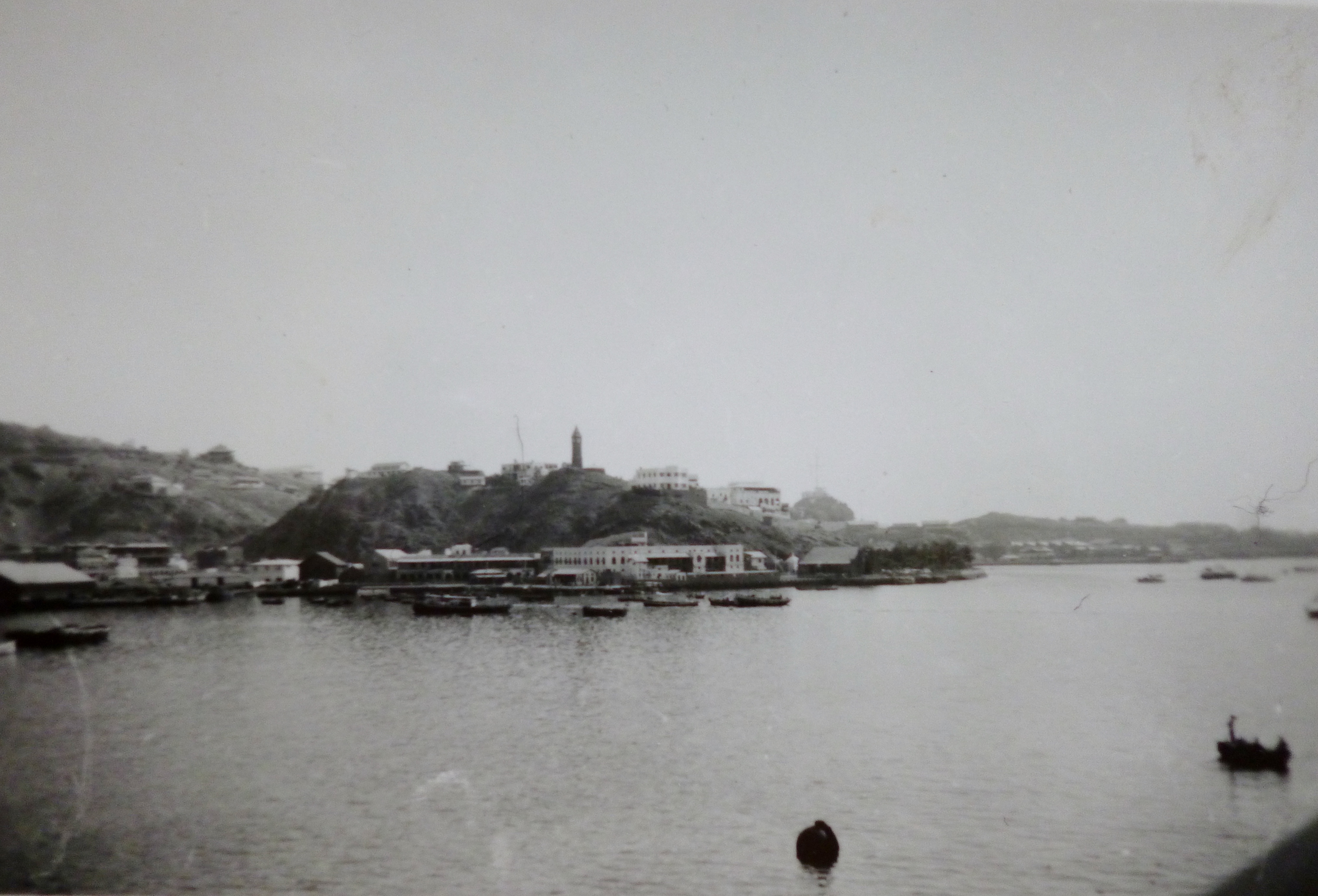 Aden in 1949, view from the boat